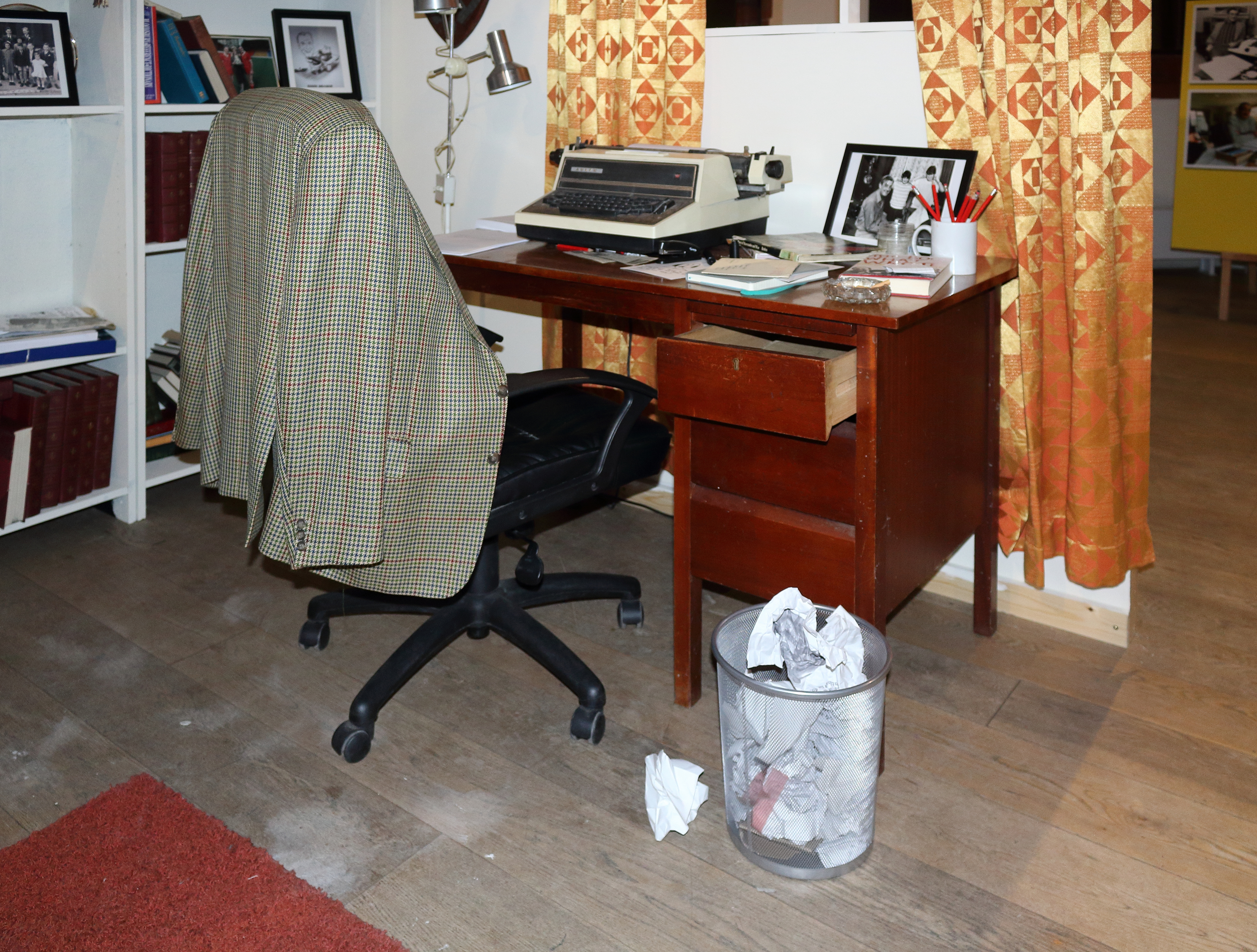 The desk at which Eddie Braben wrote many of his scripts for Morecambe and Wise